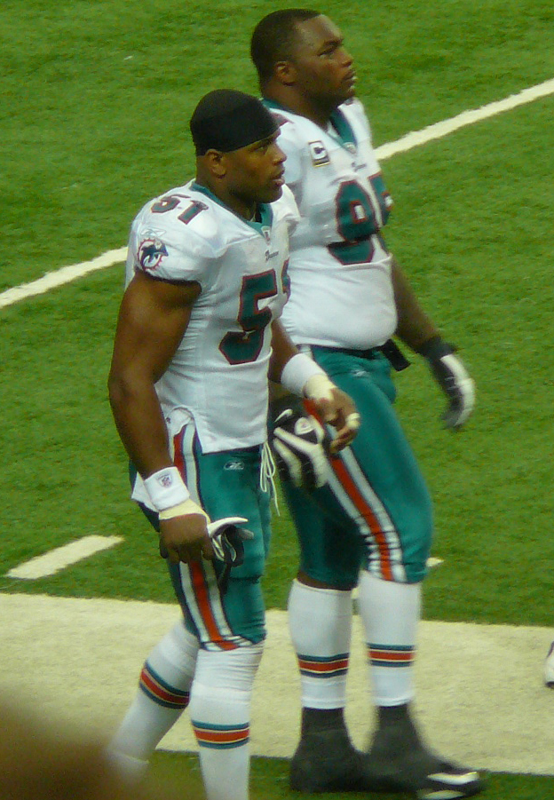 If used somewhere other than Wikipedia, Nelson, by name.